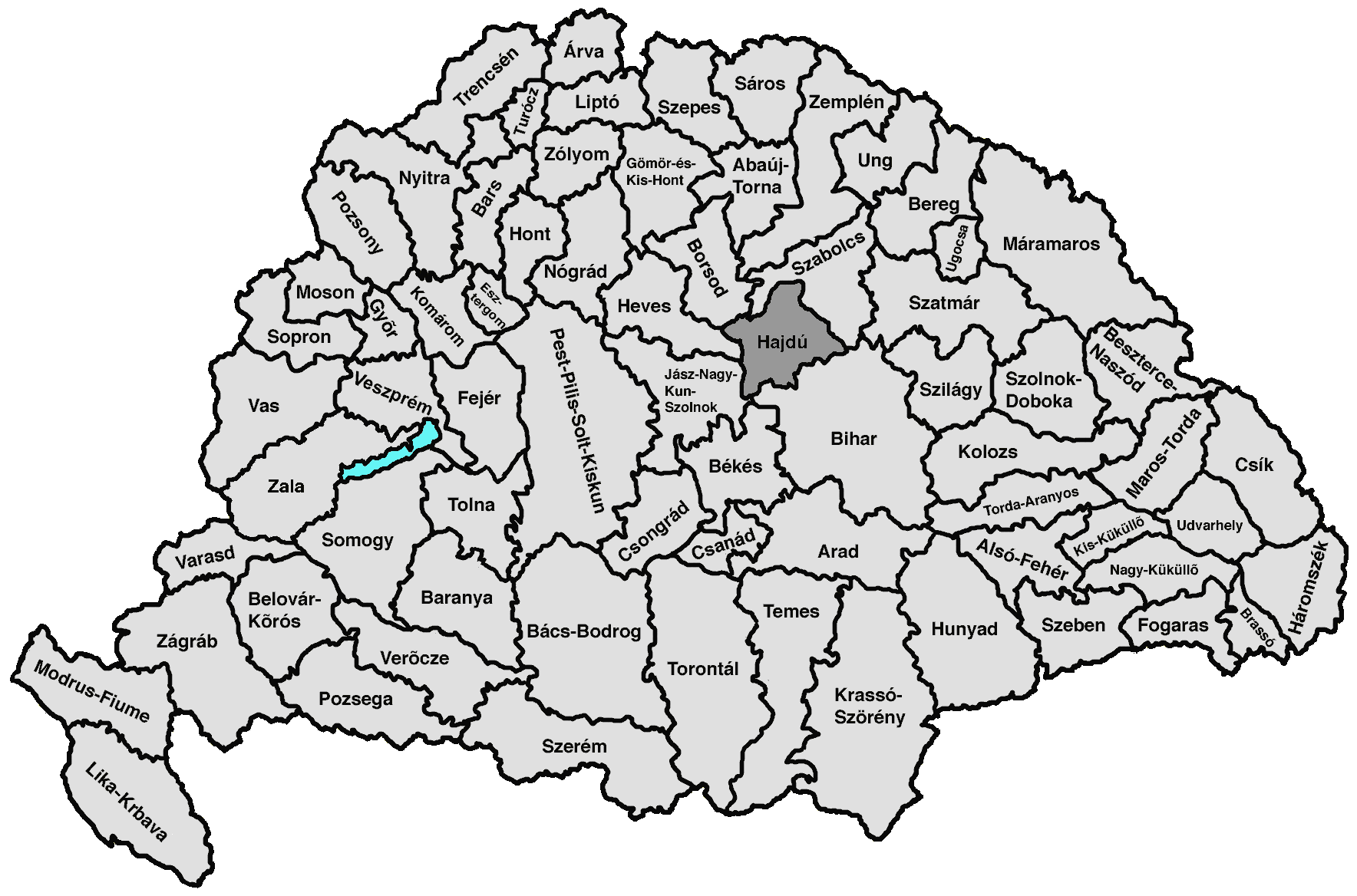 own edit of Image:Zala.png